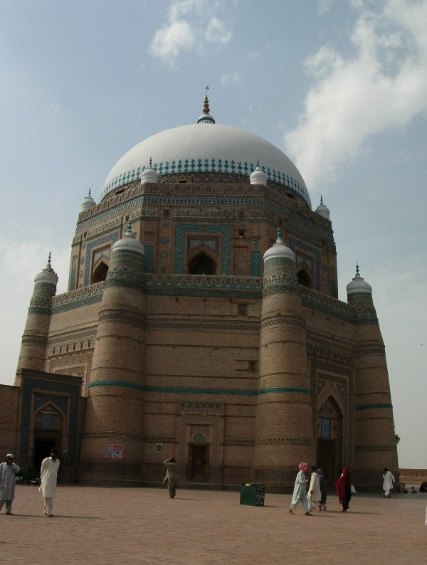 Author: Zeeshan Javeed Taken photo during a trip to Multan, Pakistan in 2005.